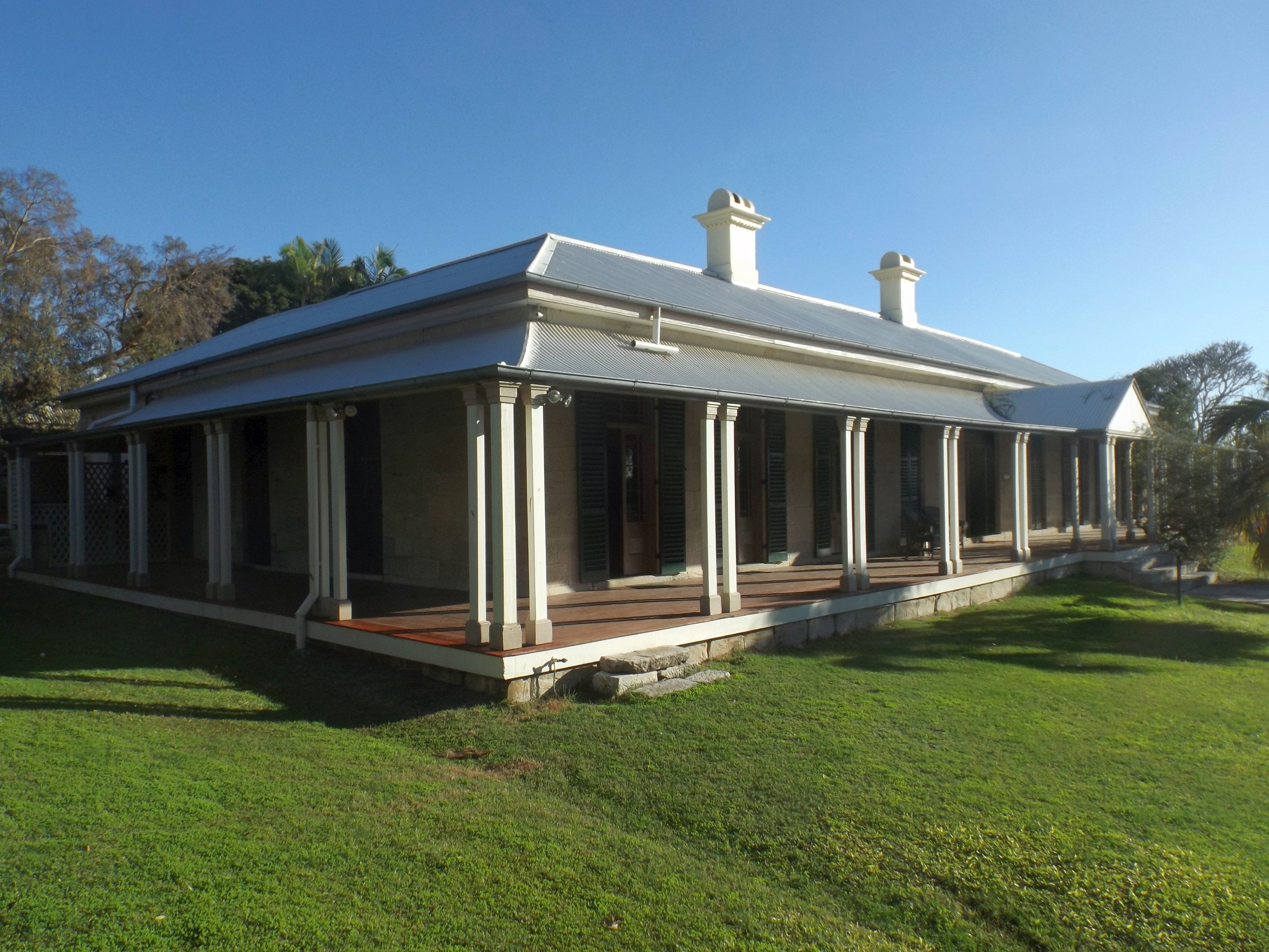 Photo of the Claremont residence at Ipswich, Queensland, Australia